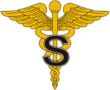 United States Army Medical Specialist collar brass. Made with Photoshop.